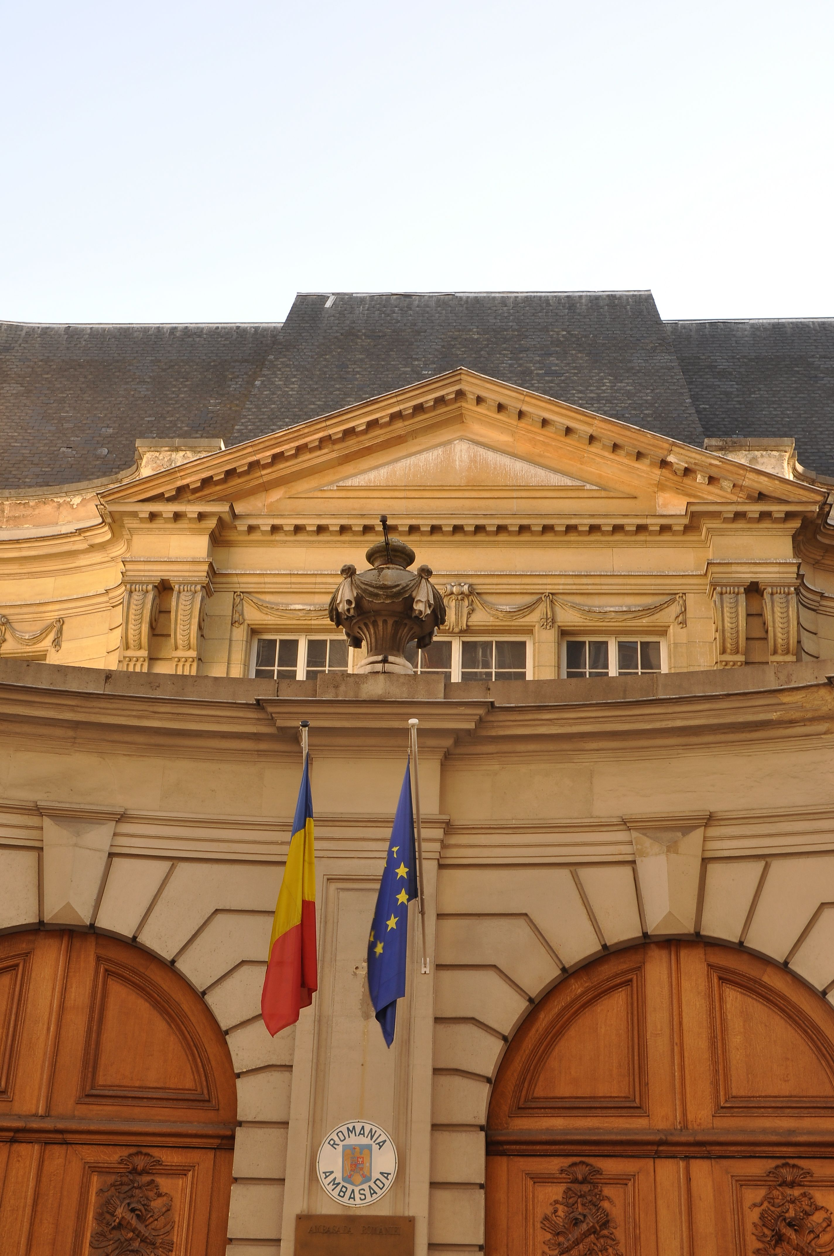 Hôtel de Béarn located at 123 rue Saint-Dominique in the 7th district of Paris, France. Built in 1895 and reshaped in 1904 by Walter Destailleur